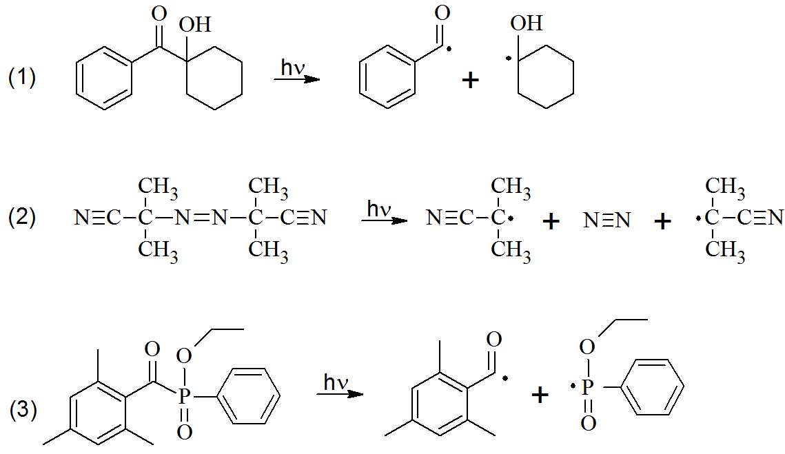 Three types of typical photoinitiators